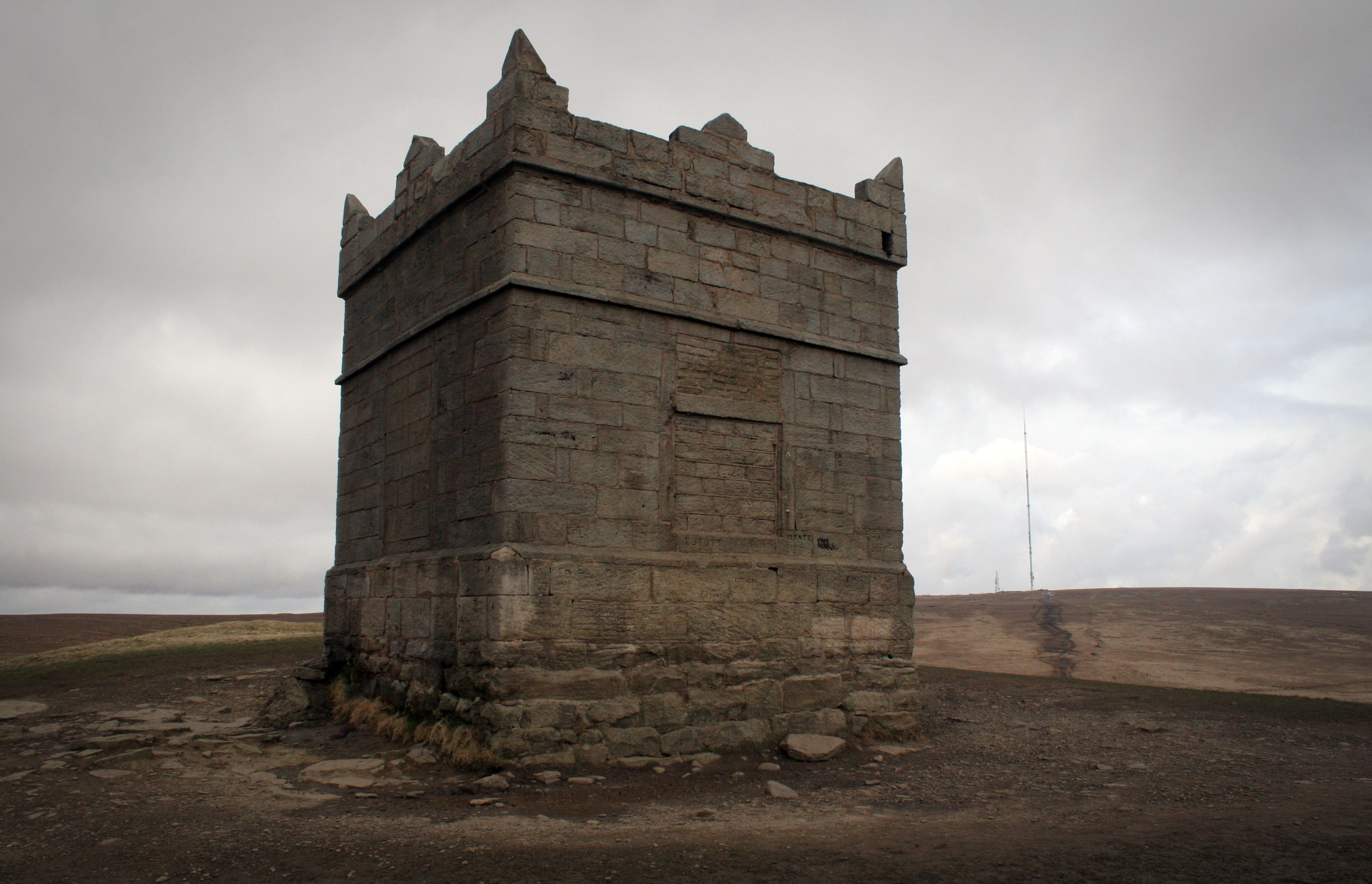 Rivington Pike, with the Winter Hill mast in the background after 1990's restoration. Note 1733 date stone no longer present, foundations exposed by errosion.